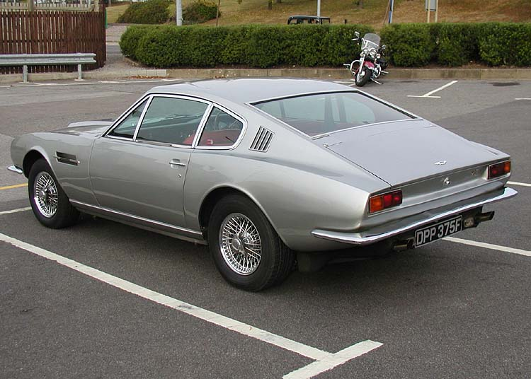 1968 Aston Martin DBS Vantage at a Classics Rally at Aust Motorway Services, Bristol, England. Picture taken by Adrian Pingstone in October 2003 and released to the public domain. taken from the English Wikipedia (